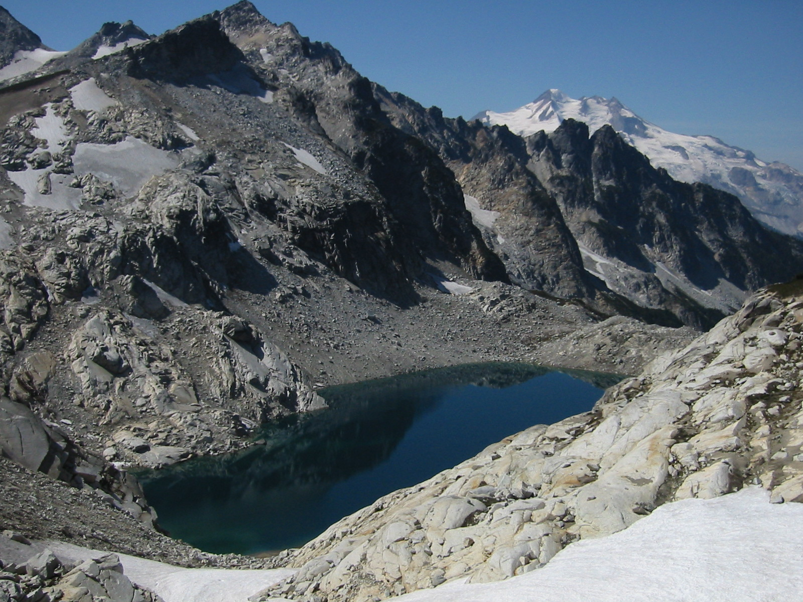 Triad Lake 6560 feet, 500 m northwest of High Pass, Cirque Mountain (left), Glacier Peak (right)